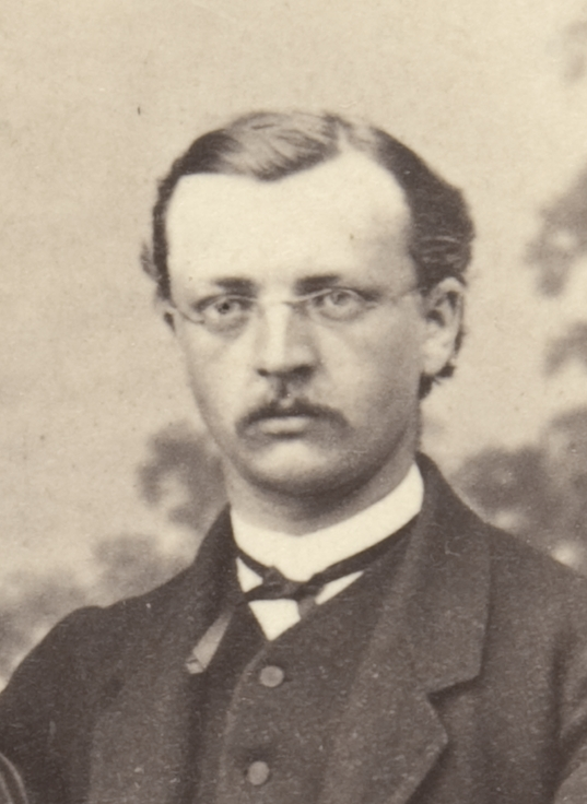 John Stenberg, 1867. Image cropped from original.